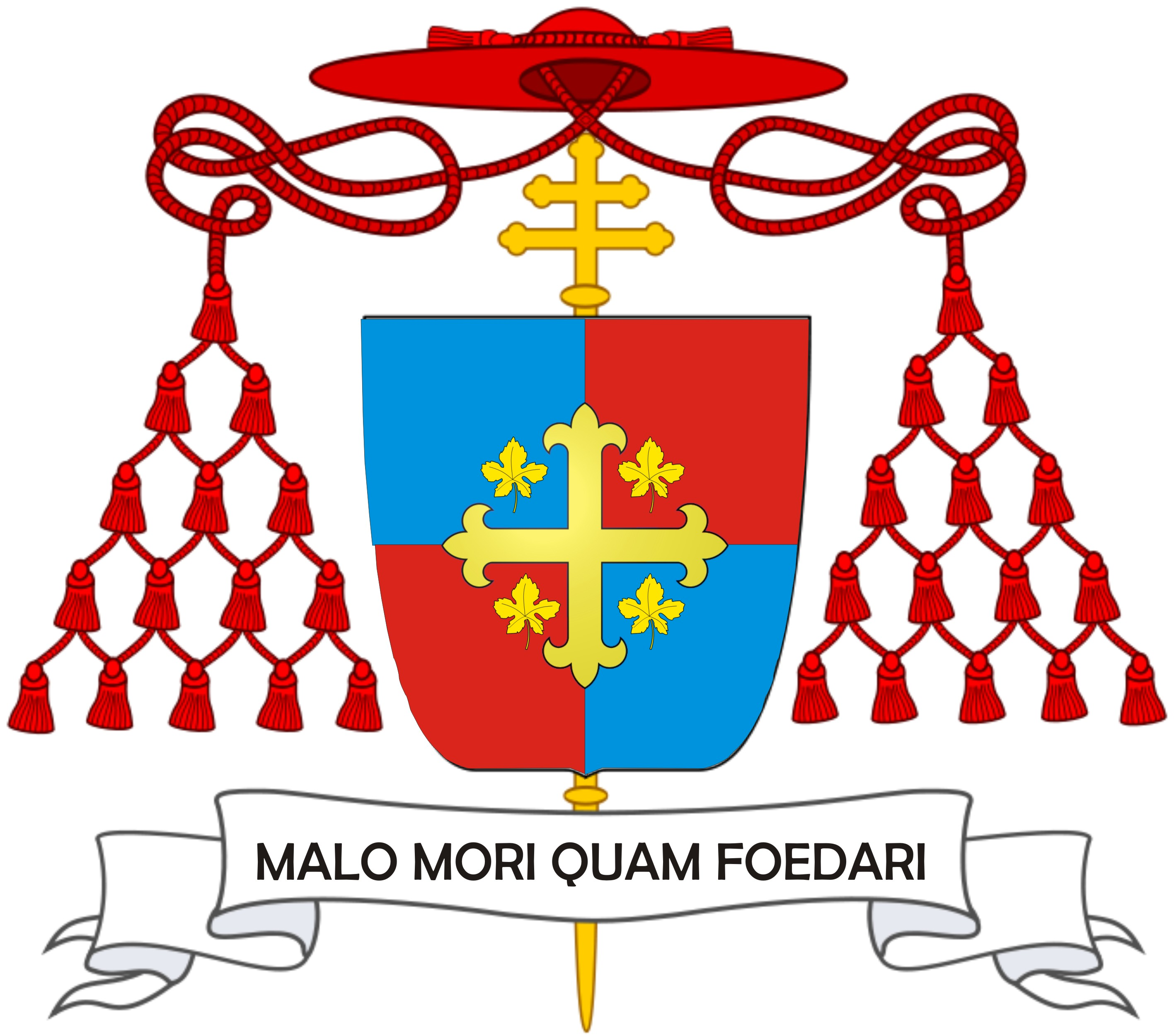 Coat of arms of cardinal Henry Manning, catholic archbishop of Westminster